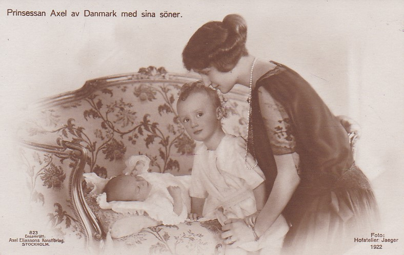 Margaretha, Princess of Denmark (nee of Sweden) with her children: George Valdemar and Flemming Valdemar